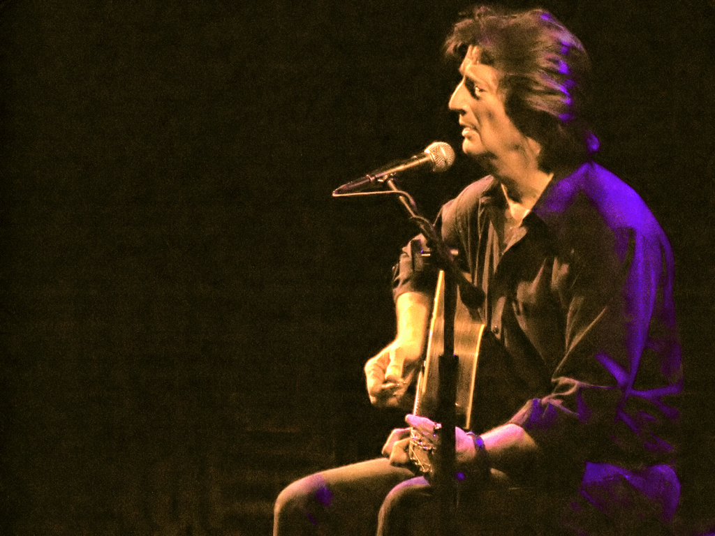 Chris Smither photographed at Joe's Pub in NYC on 9-29-06 by Anthony Pepitone